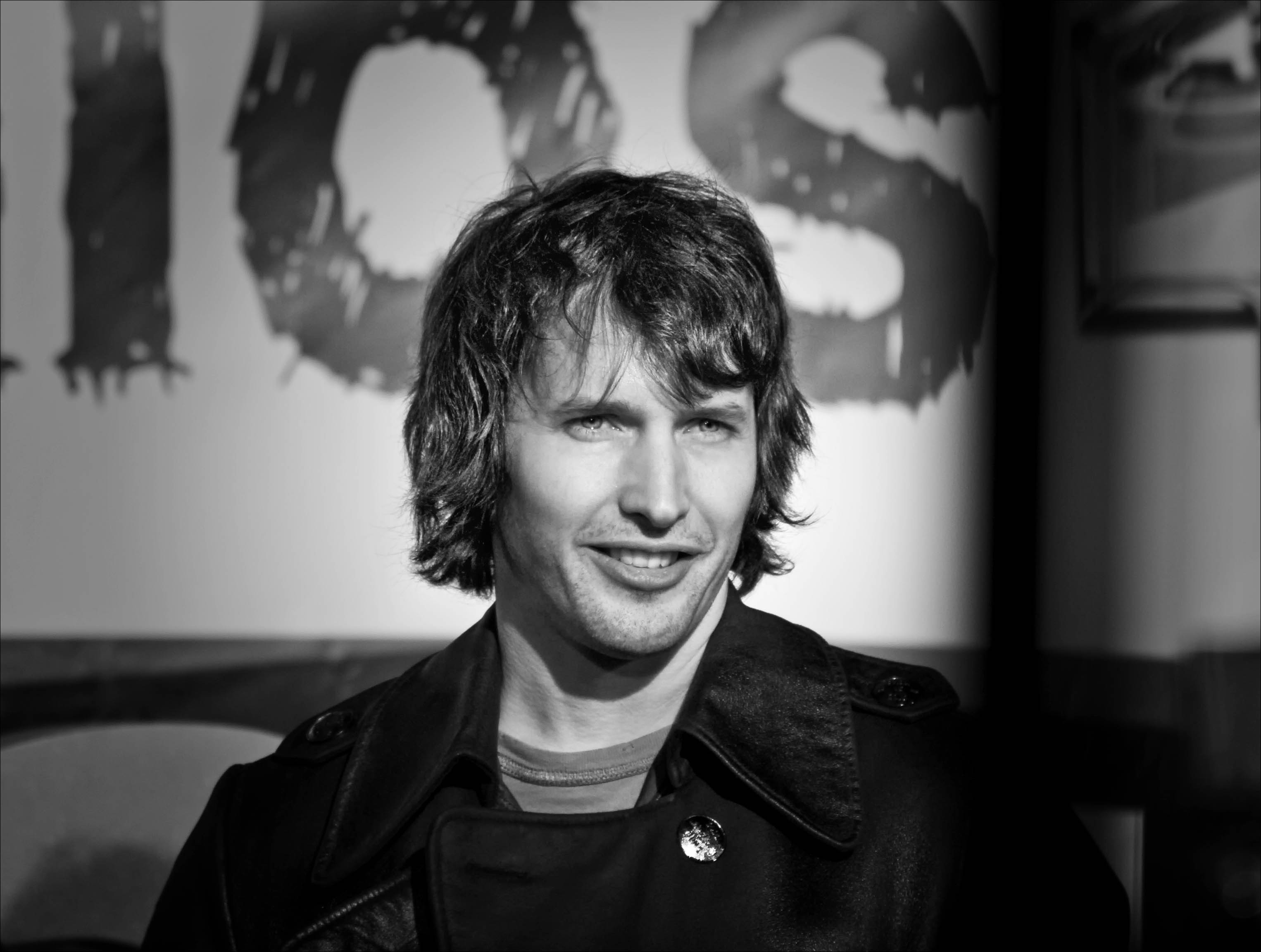 James Blunt; Taked in Madrid. 40 Principales Awards, Spain 12-12-2008